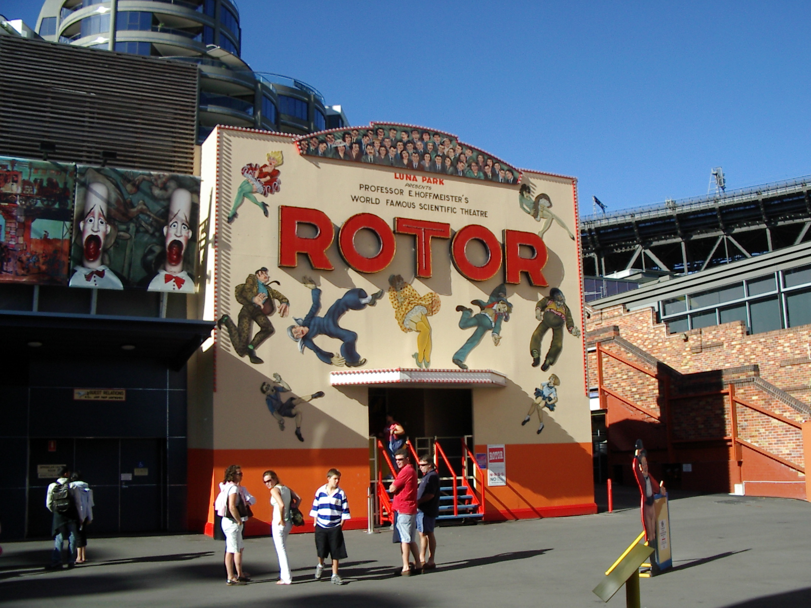 Photograph displaying the facade of the Rotor amusement ride at Luna Park Sydney.